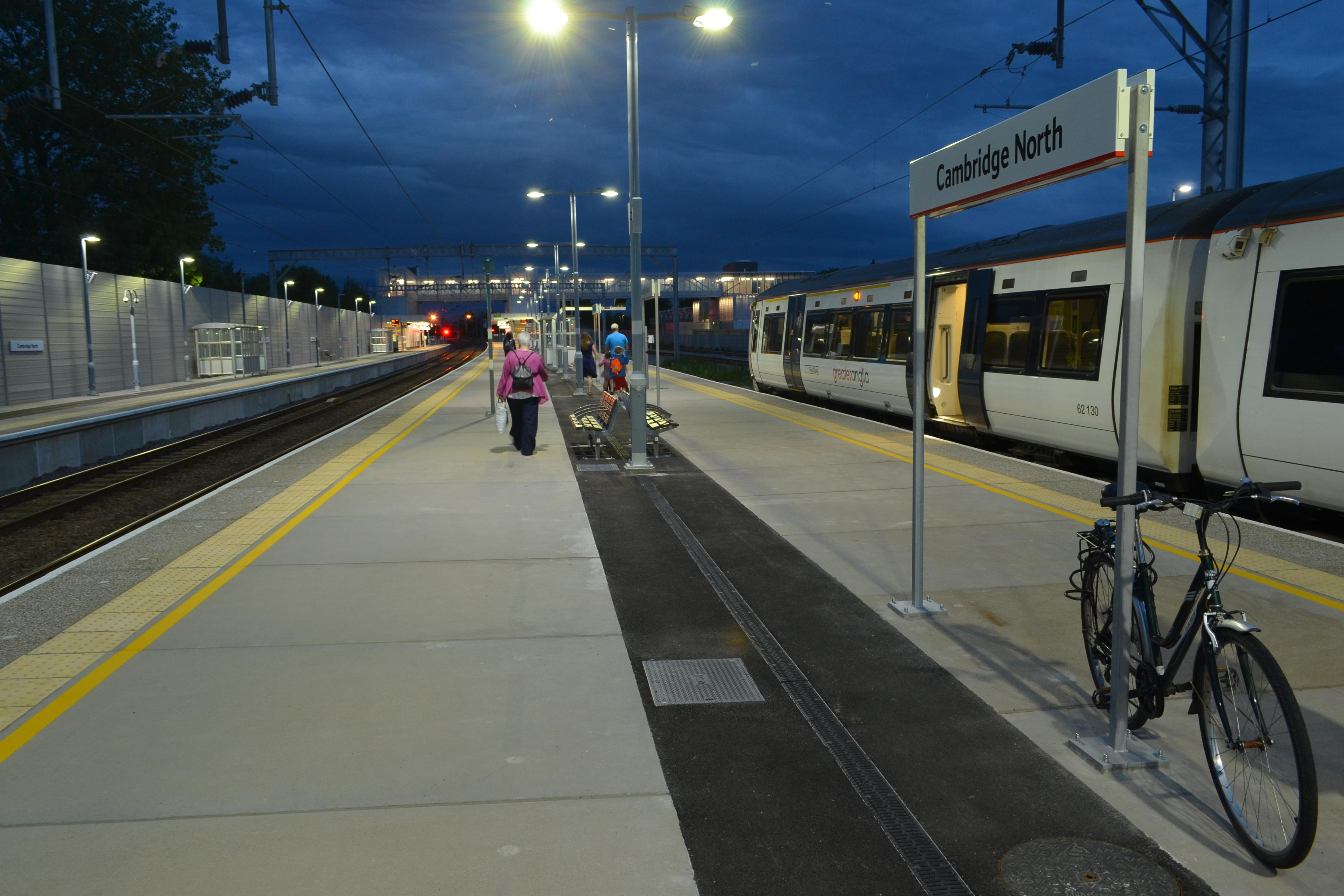 Night view of Cambridge North railway station platforms in May 2017.